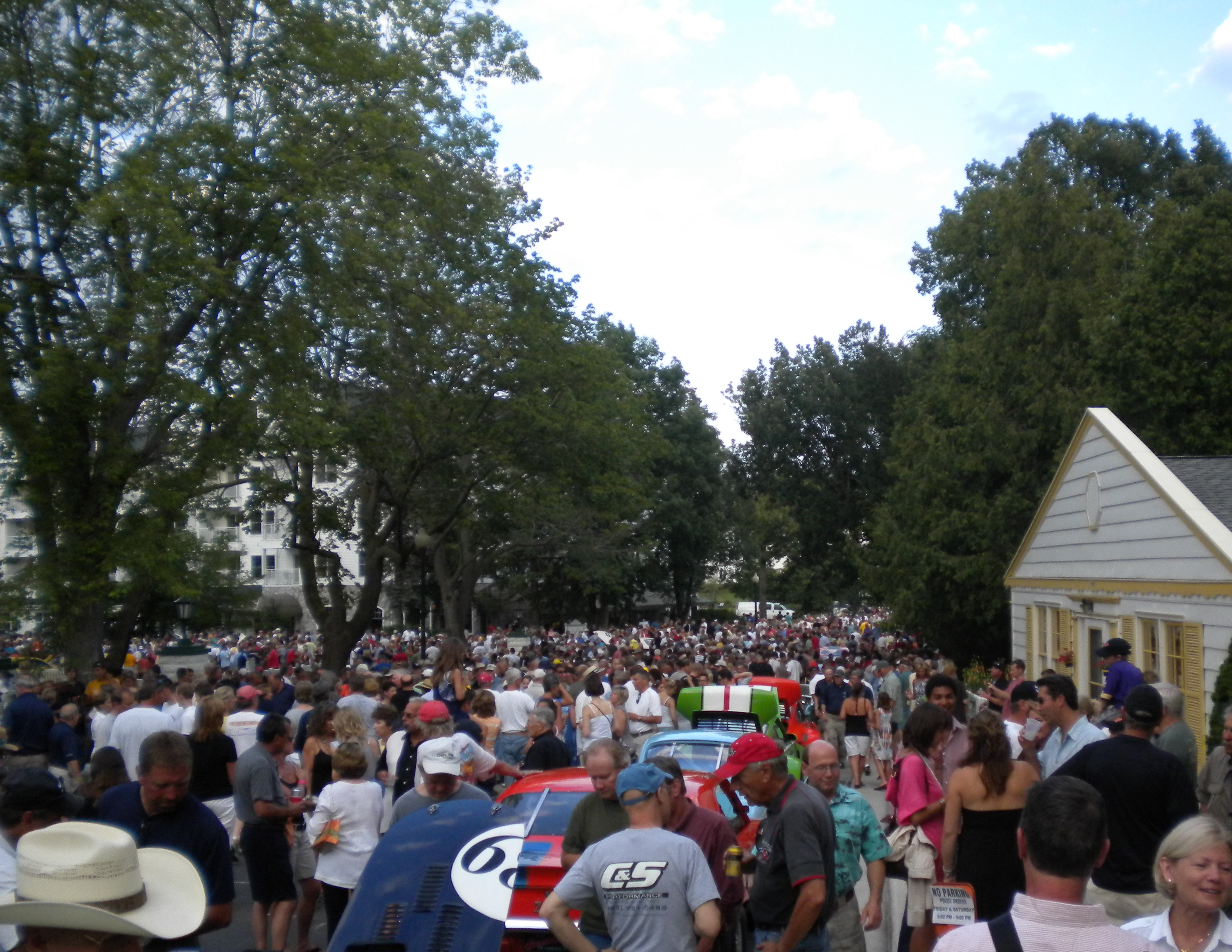 Picture of the crowd at the 2010 Road & Track Concours d'Elegance on Lake Street looking towards the lake.